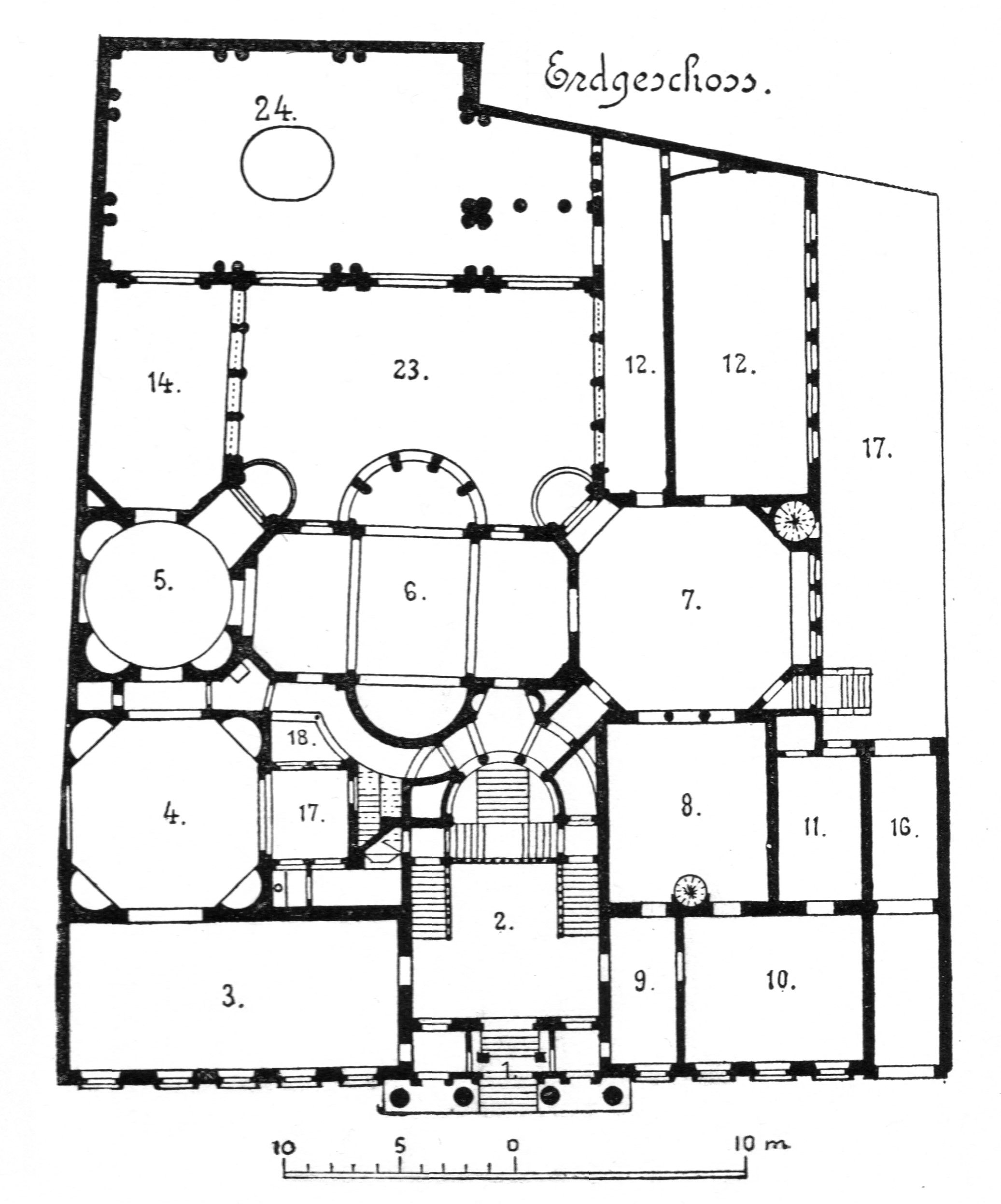 Berlin - Ground floor plan of the Palais Strousberg at 70 Wilhelmstraße 1 Entrance 2 Vestibule 3 Reception room 4 Ballroom 5 Boudoir 6 Dining room 7 Billiards room 8 Library 9 Antechamber 10 Ambassadors work room11 Bedroom 12 Art gallery 14 Antechamber 16 Passage 17 Courtyard with glazed roof 18 Buffet room 23 Courtyard 24 Great ballroom